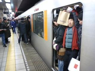 Night peak time at Tokyu Den-en-toshi line Shibuya Station